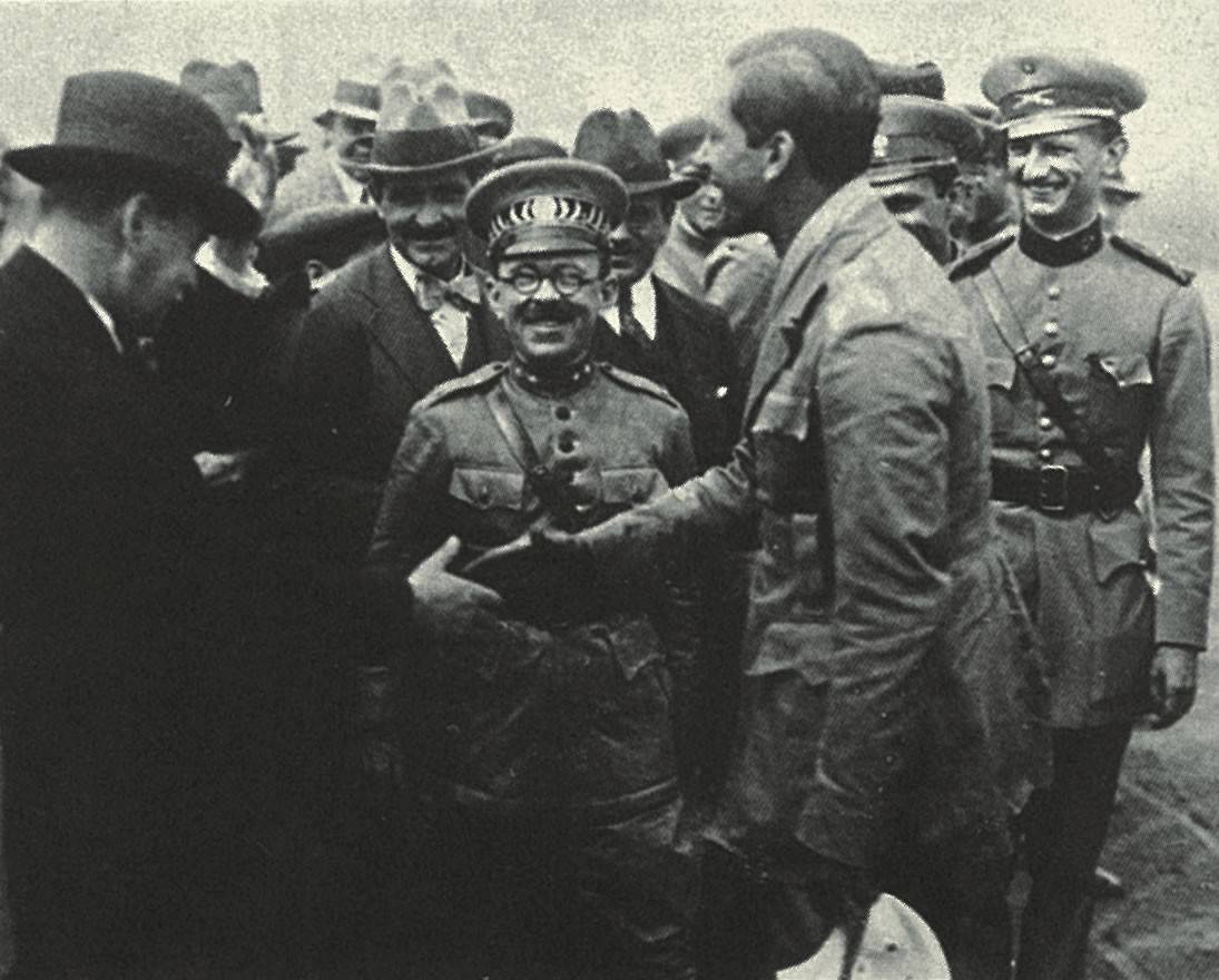 General Klinger was received on his arrival in São Paulo, in the Revolution of 1932.